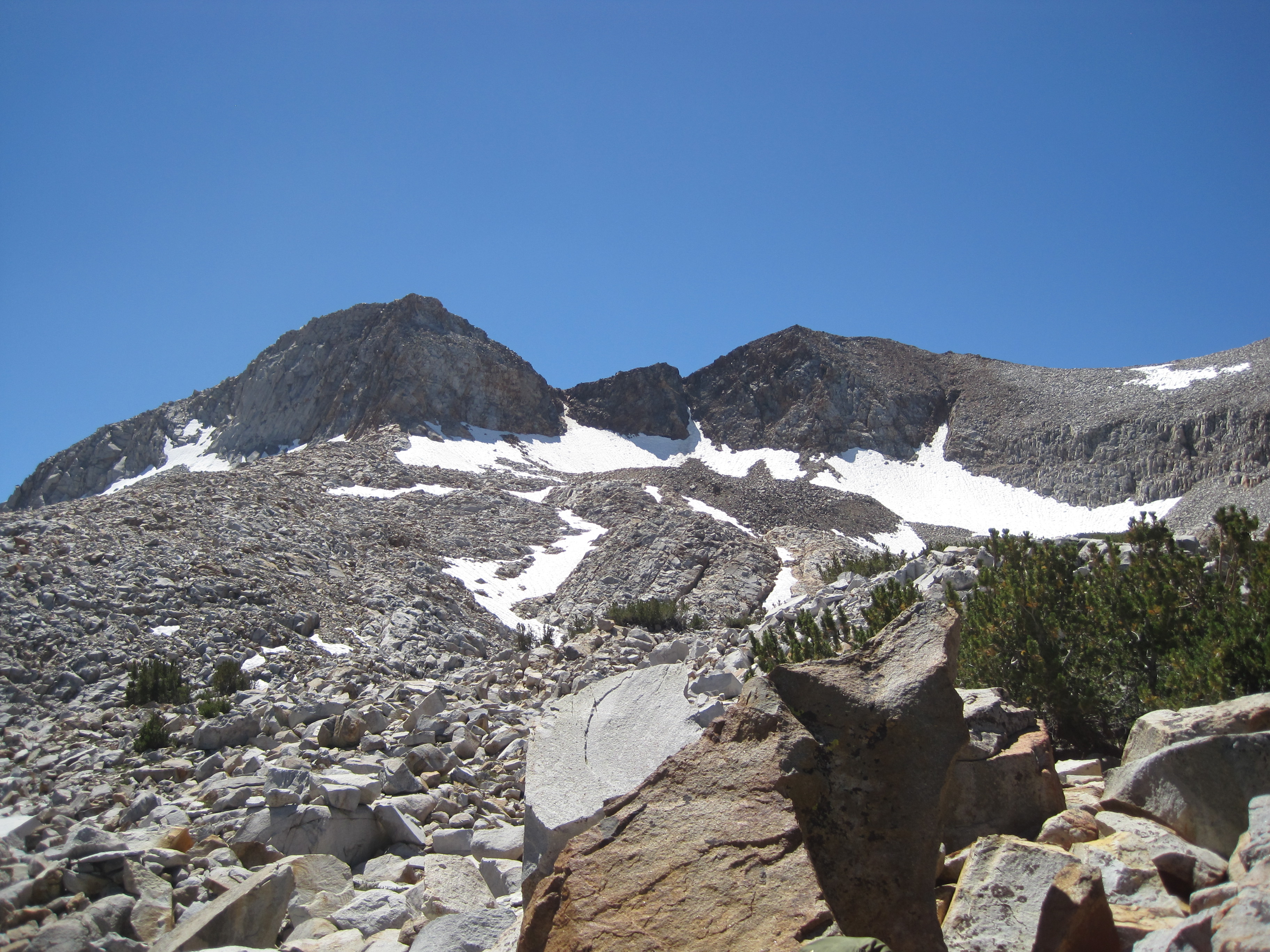 Triple Divide Peak, on the souther border of Yosemite National Park, viewed from the North.